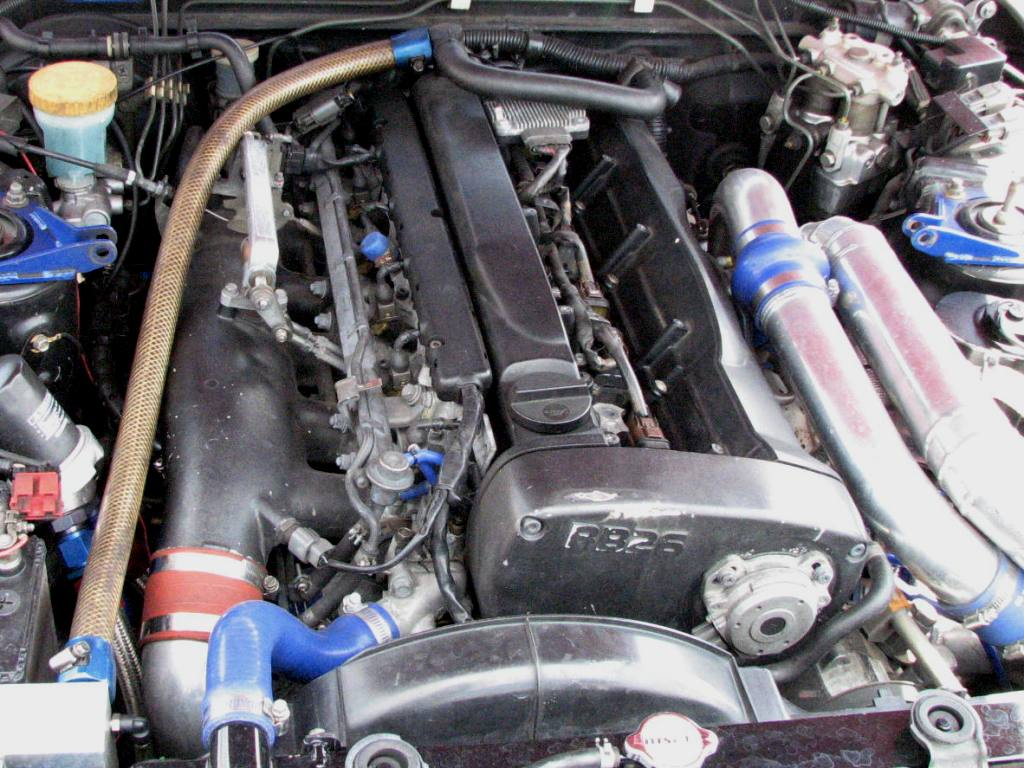 Nissan, RB26 improved engine (Not original one).